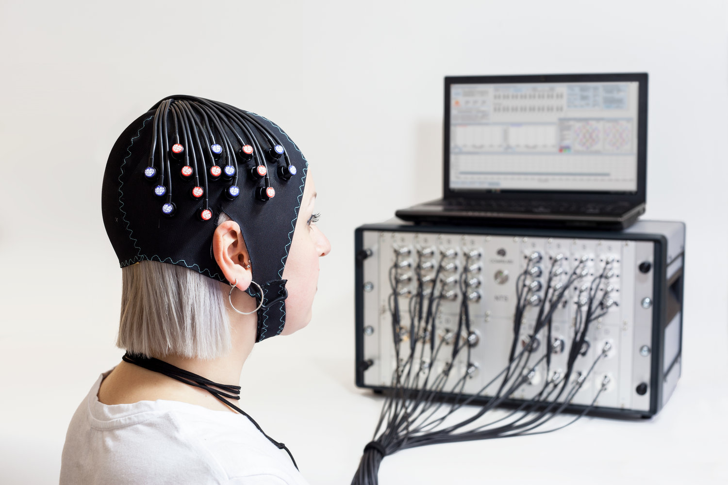 fNIRS cap